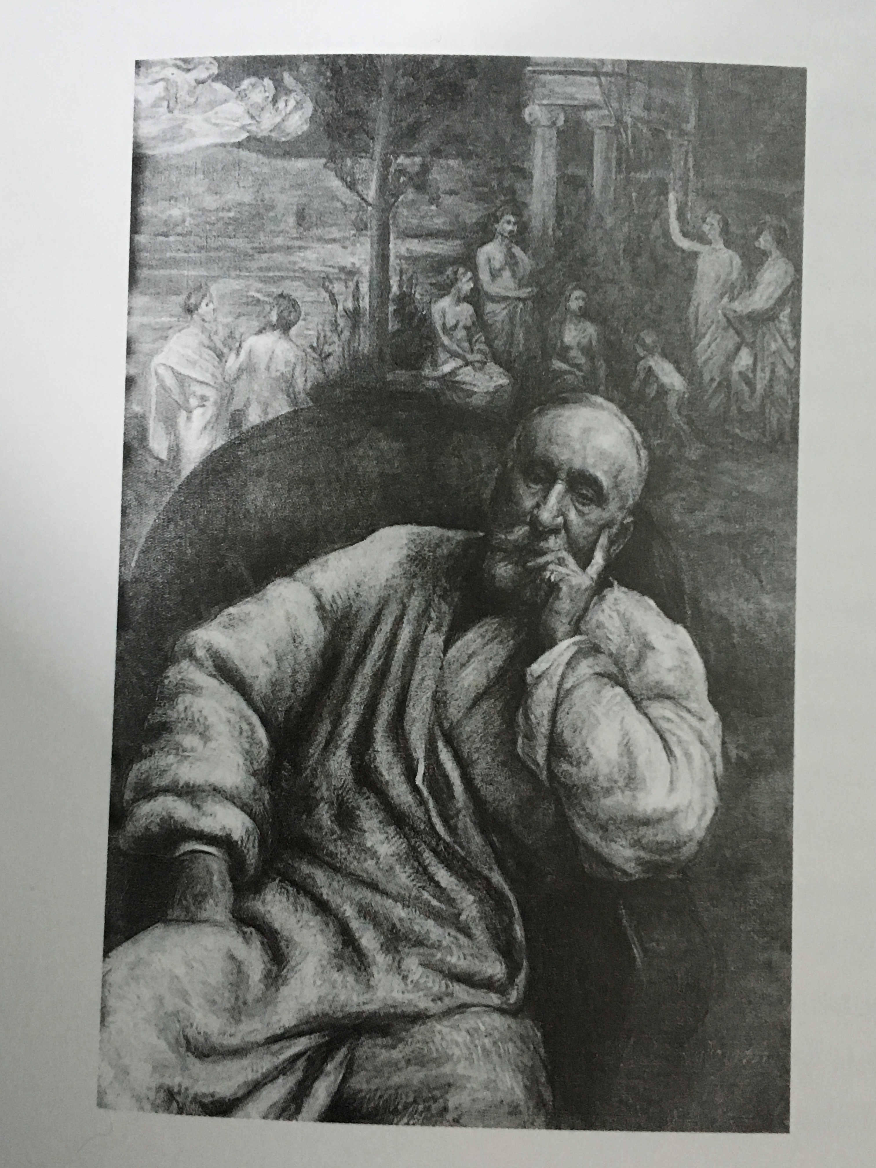 Oil on canvas portrait created in 1895, currently in the Musée de Picardie, Amiens